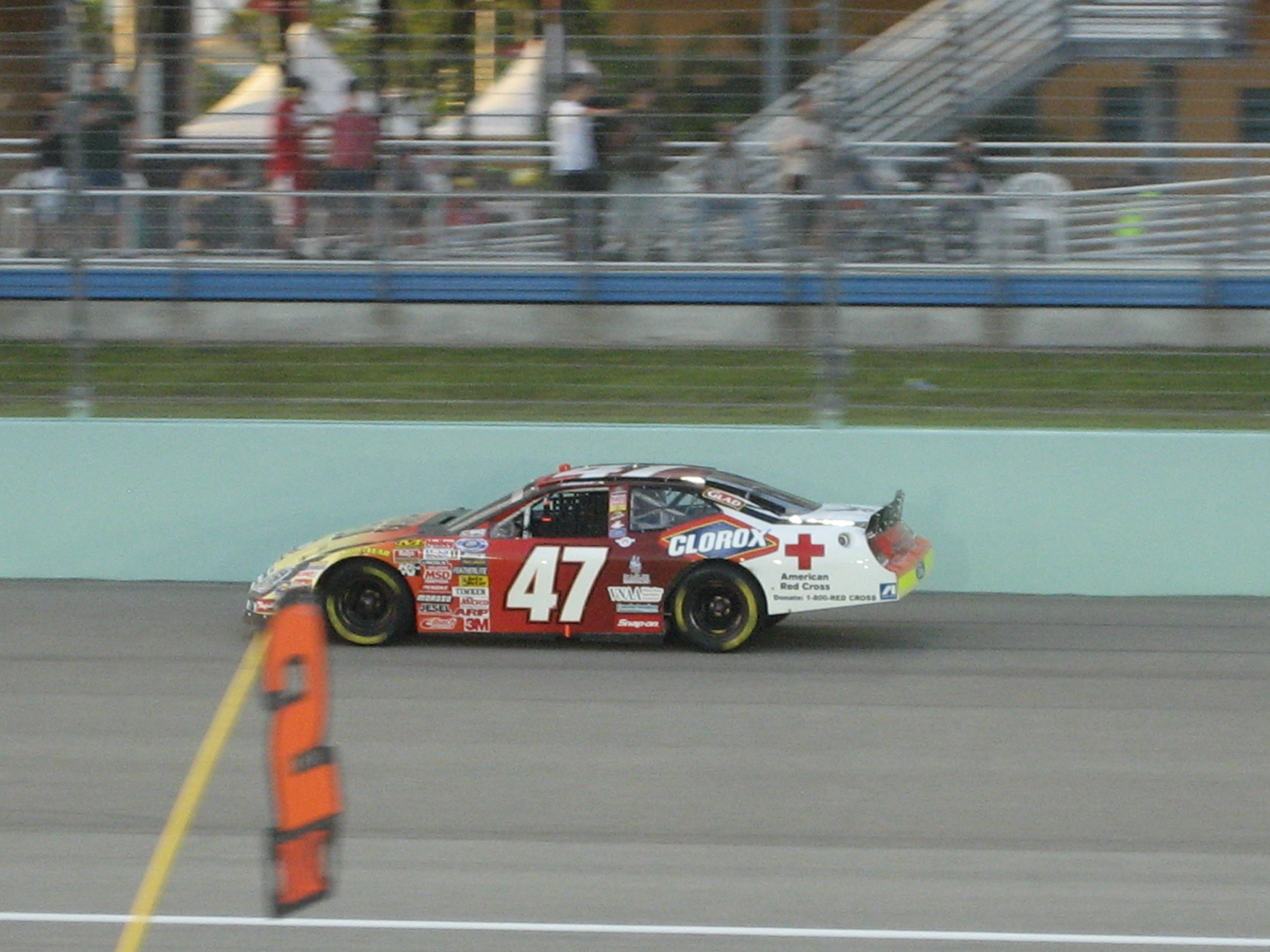 Kelly Bires racing in the 2007 Ford 300 at the Homestead-Miami Speedway. Cr. Chris Green